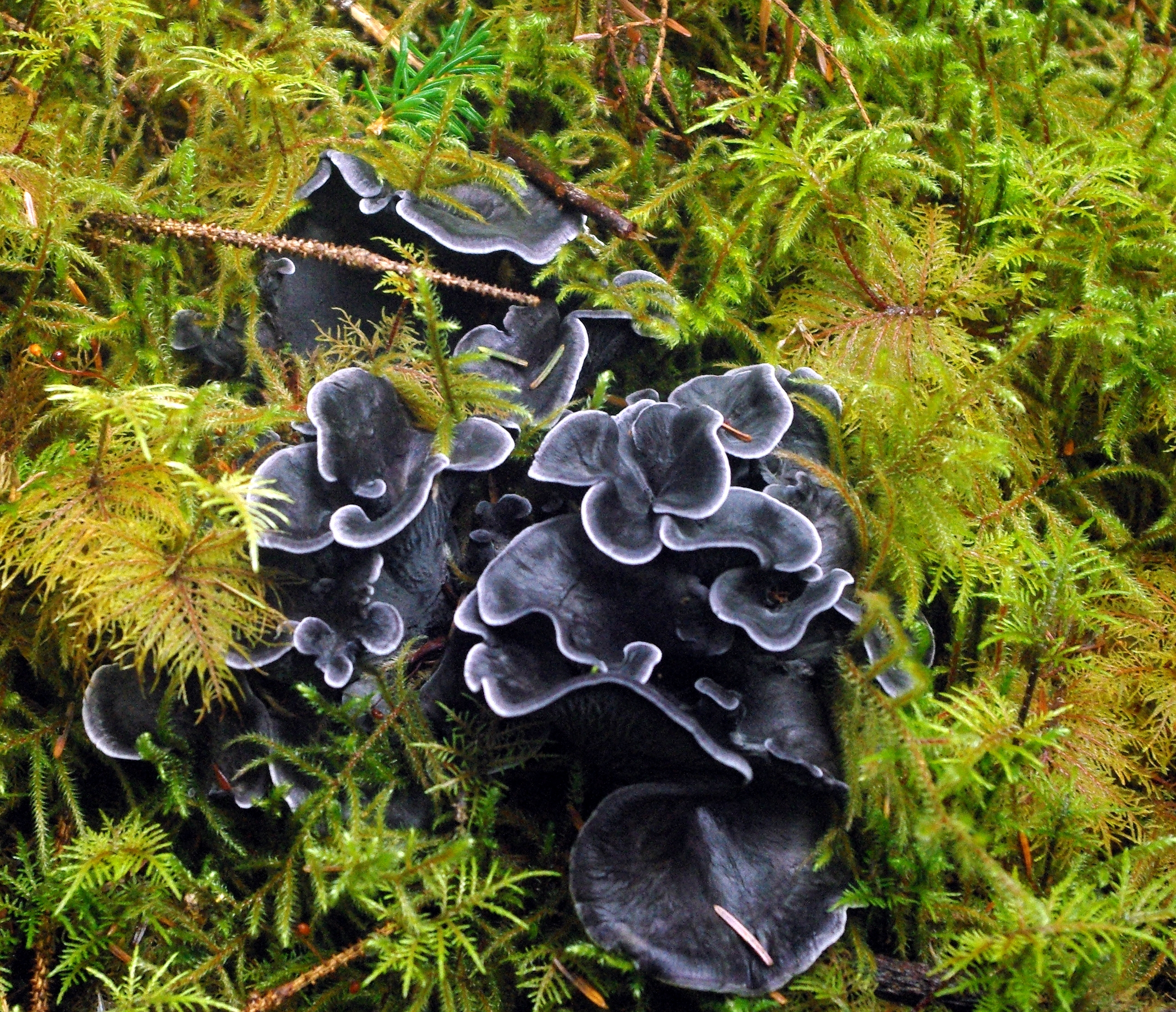 Polyozellus multiplex found near Skidigate Lake Haida Guaii --Polyozellus_multiplex